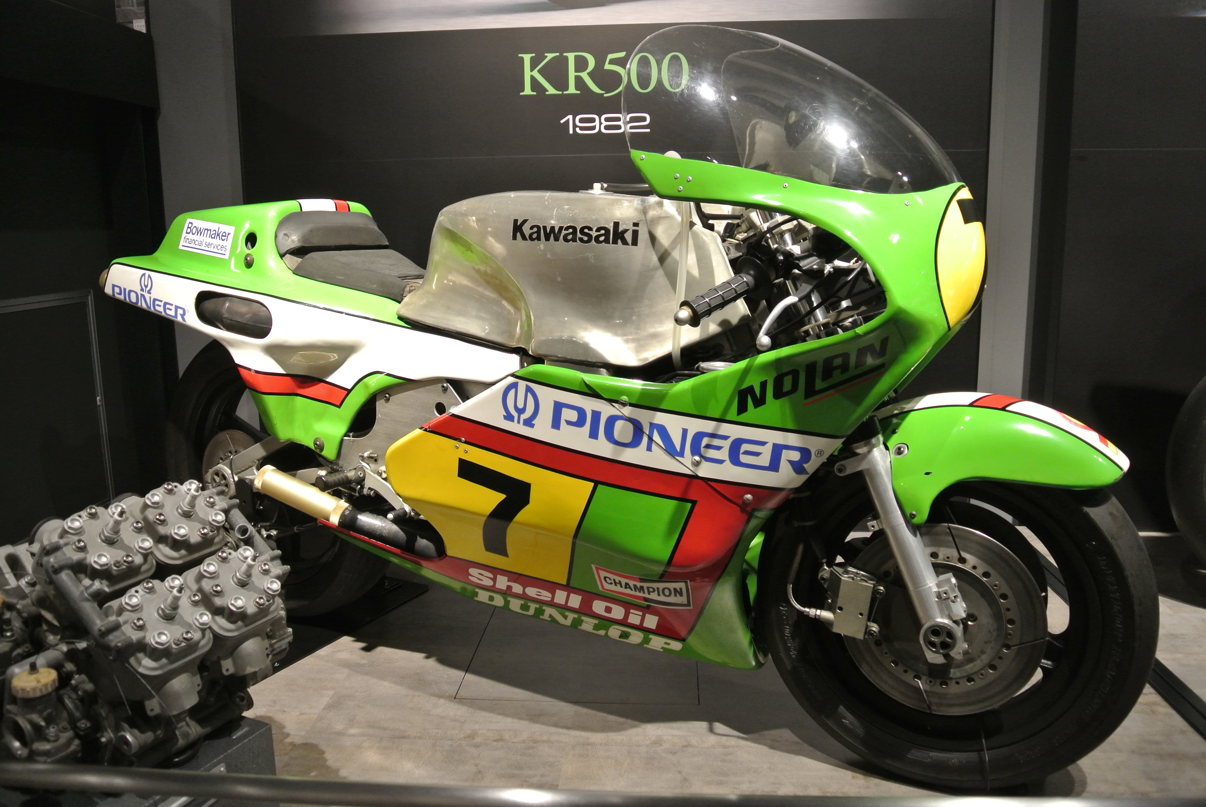 1982 WGP Racing bike Kawasaki KR500 in the Kawasaki Good Times World.